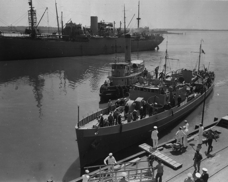 USCGC Icarus (WPC-110) arriving at Charleston Navy Yard with prisoners of war from the U-boat U-352